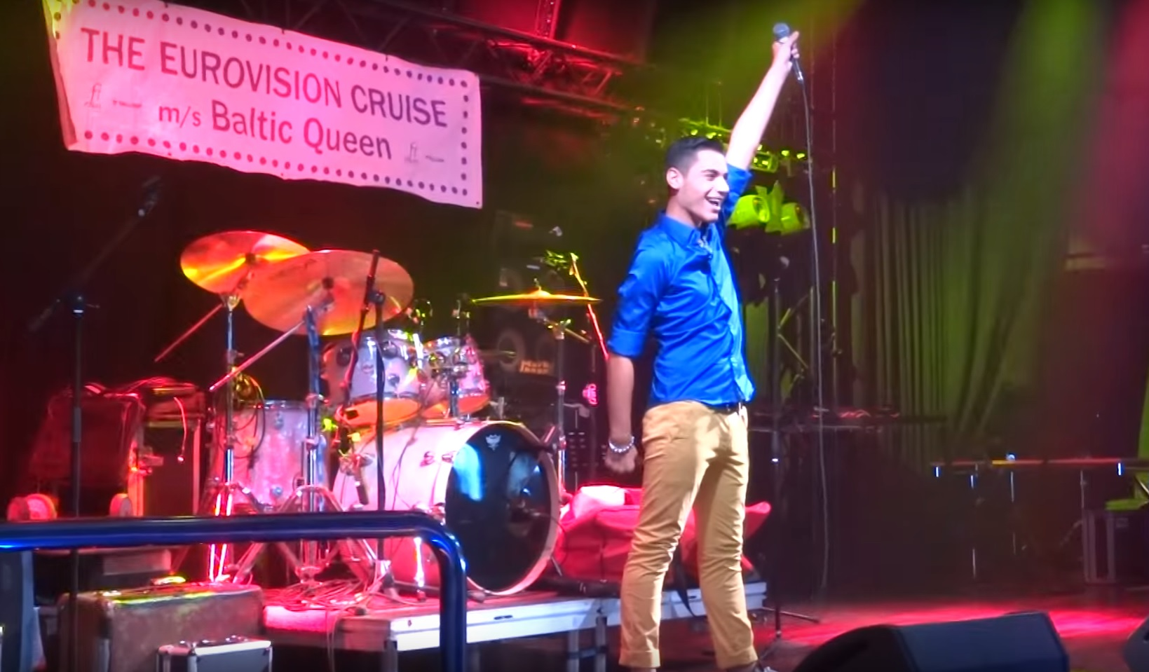 Sebastian Calleja during the Eurovision Cruise Helsinki